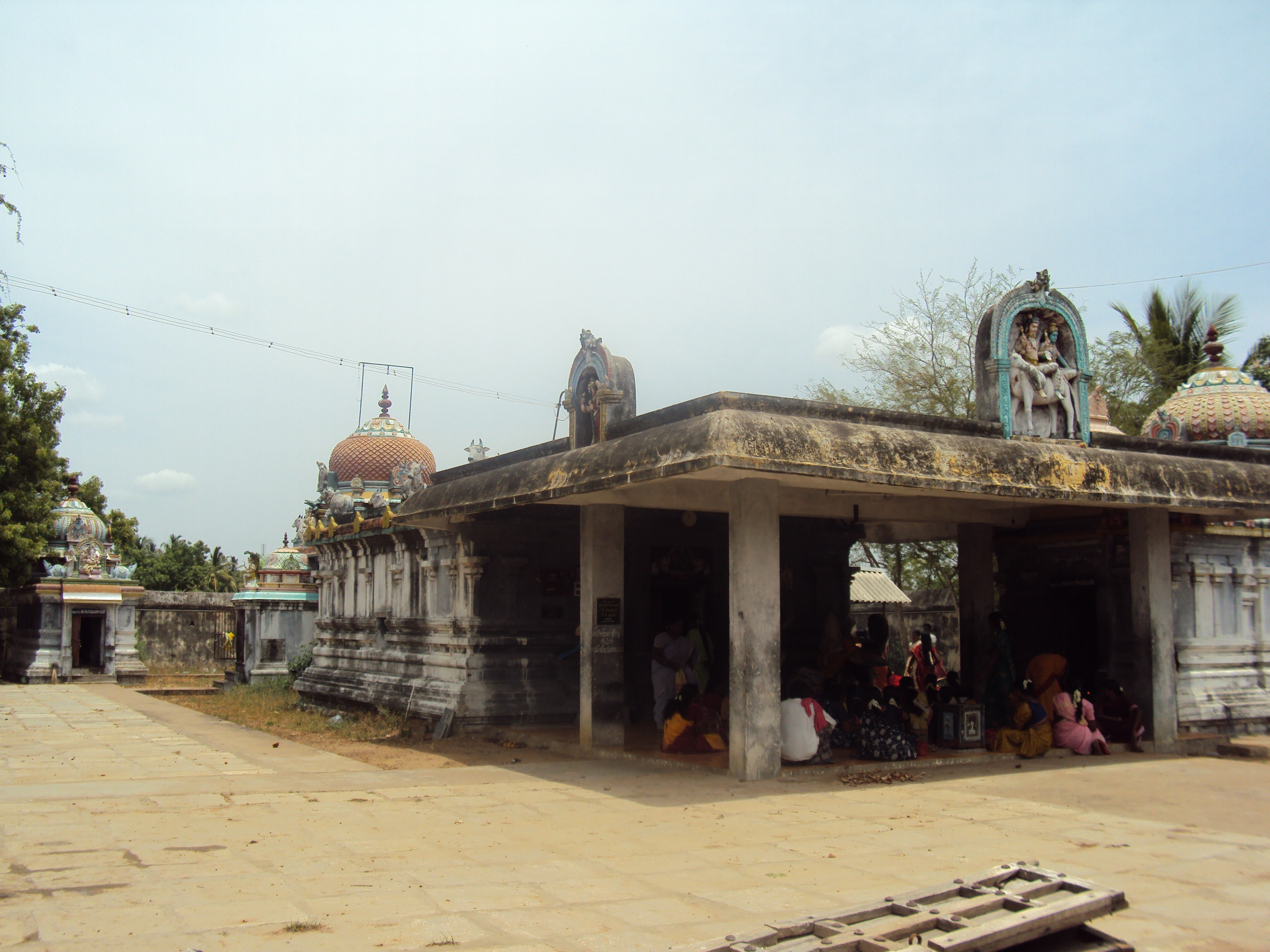 Ullikkottai Sivan Temple-Moolavar அருள்மிகு சிவன் கோவில்,உள்ளிக்கோட்டை-முலவர் சந்நிதி